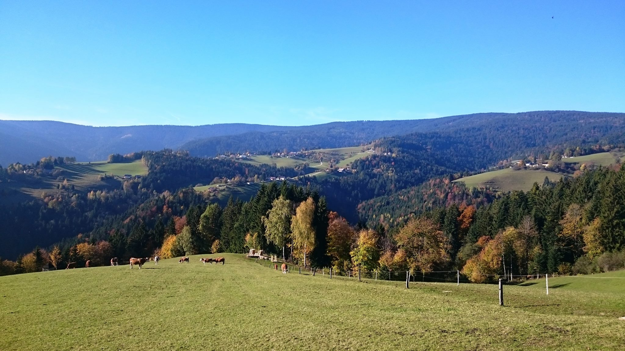 Pohorje - on the way to Rogla